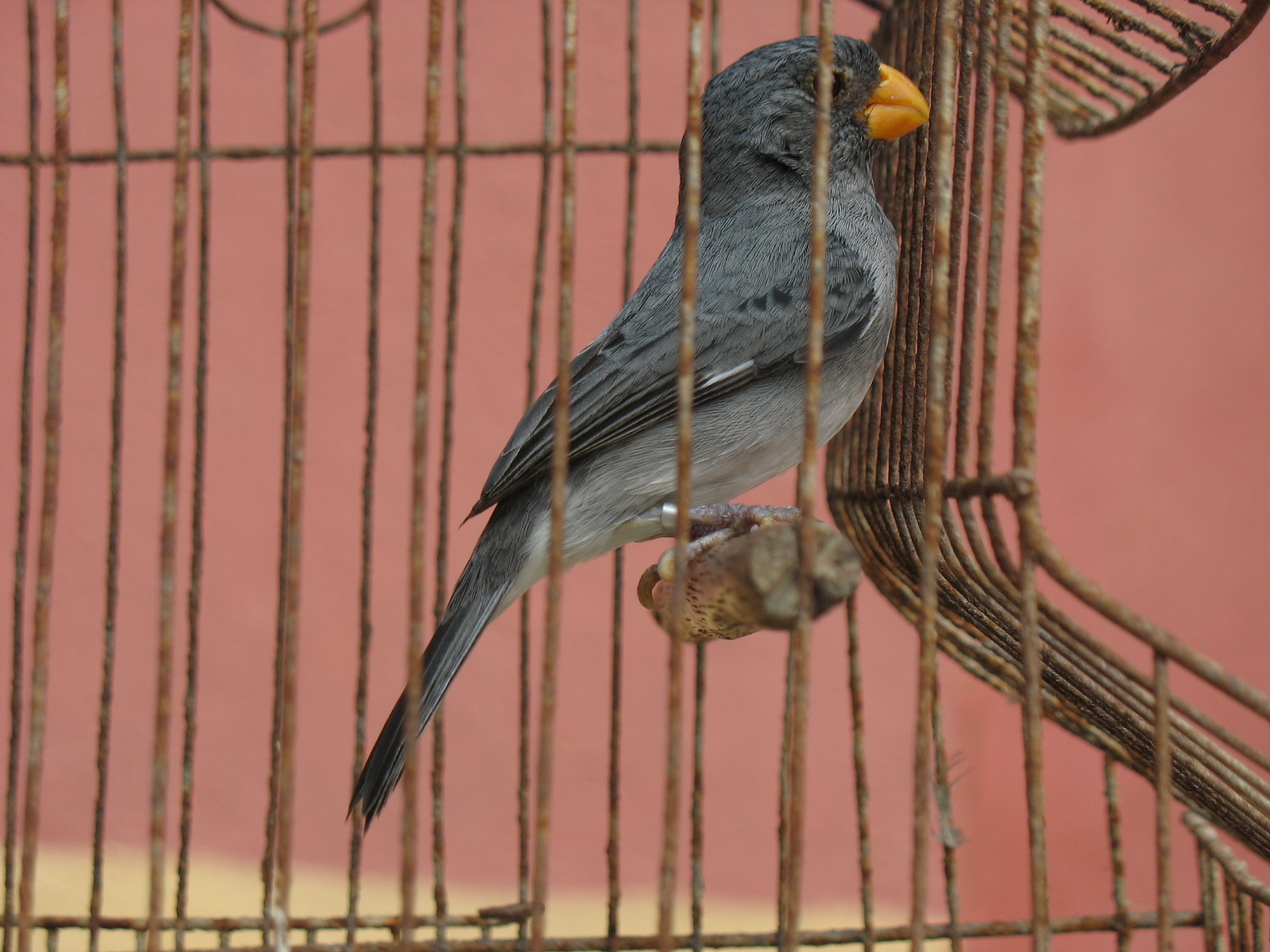 Grey seedeater in Barranquilla